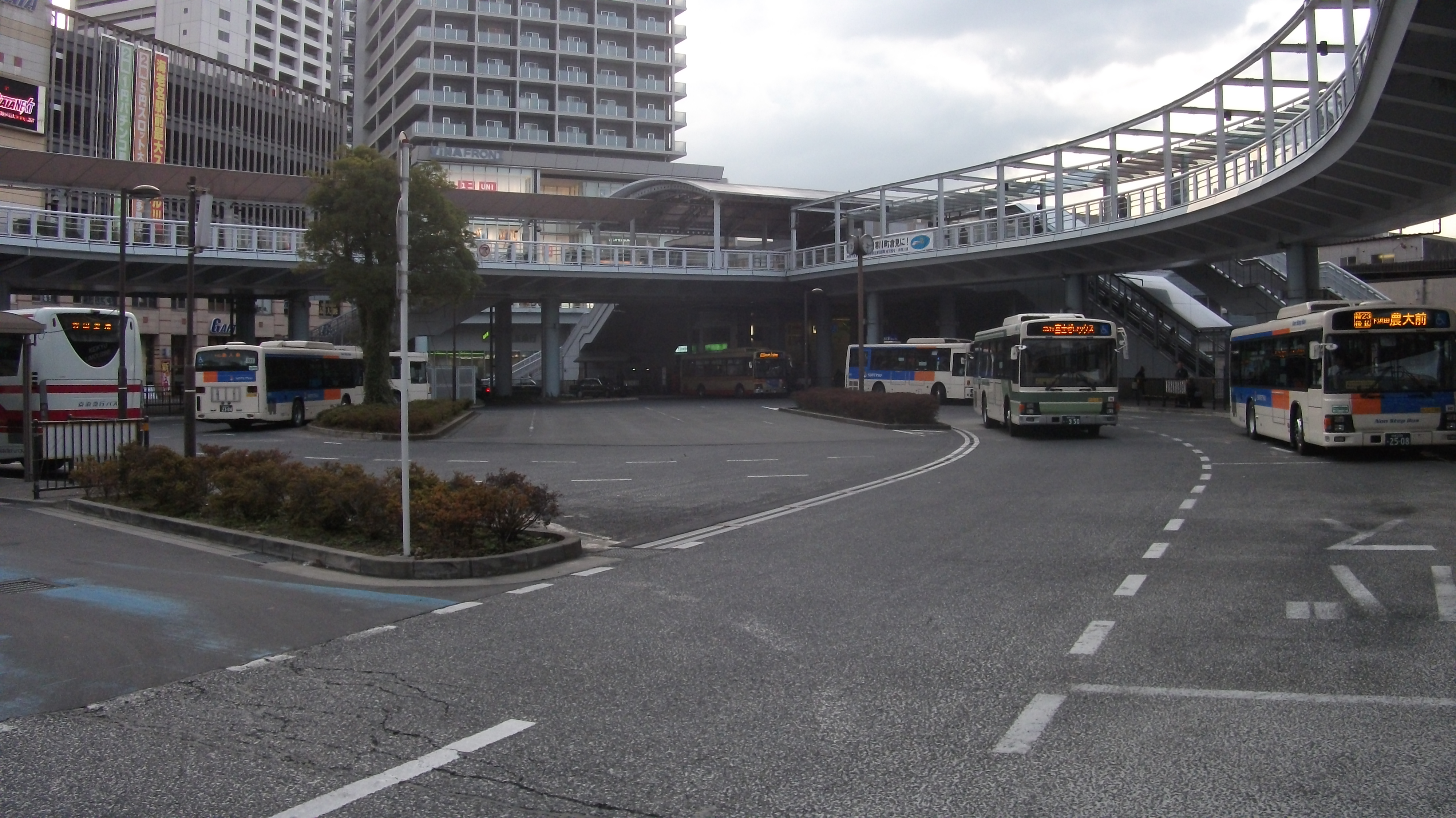 The bus terminal on the west side of Ebina Station in Kanagawa Prefecture, Japan